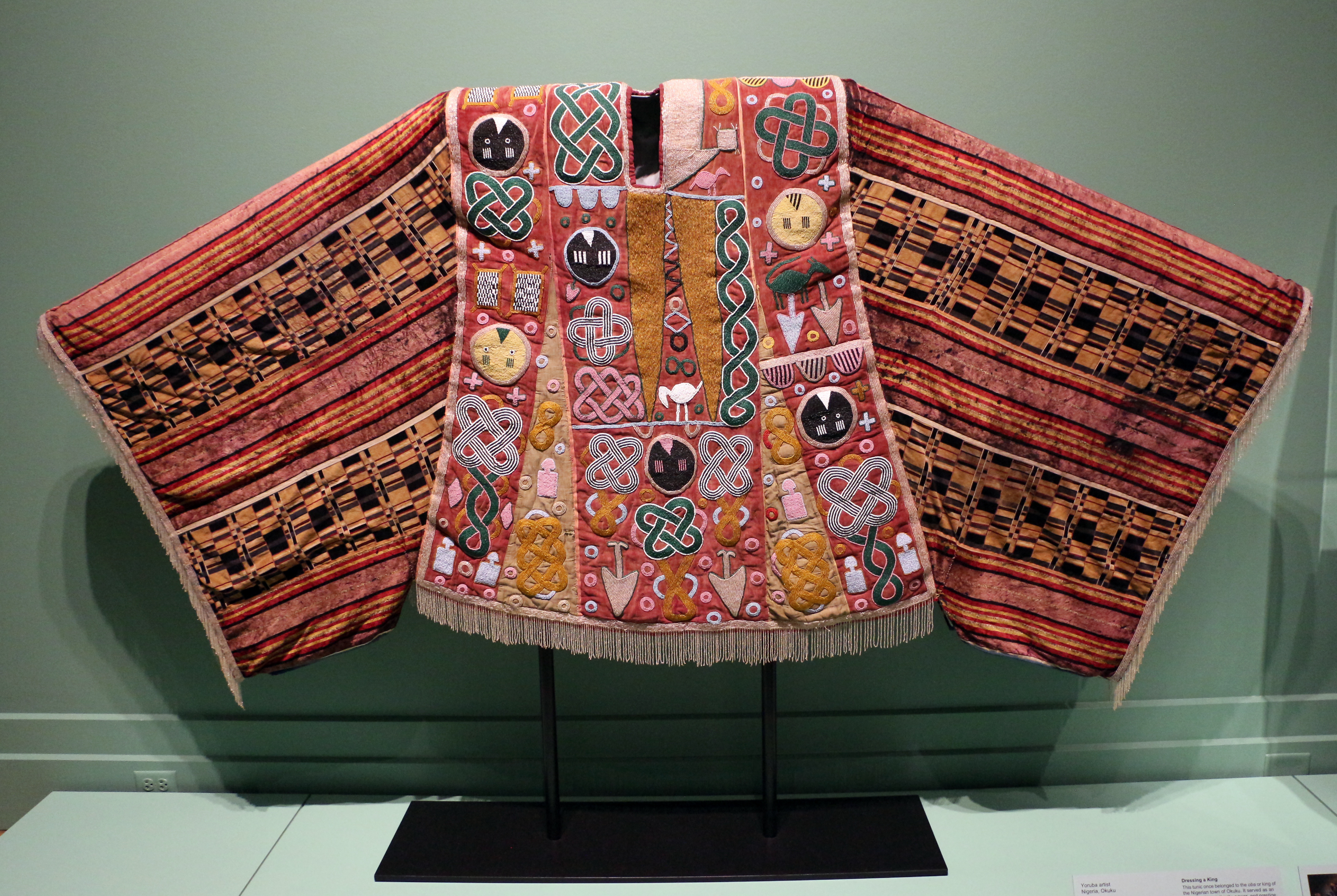 Art of Africa in the Speed Art Museum